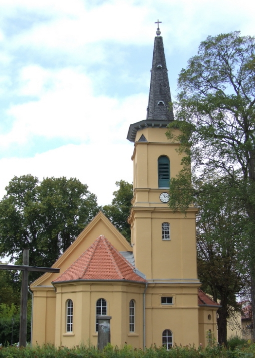 The village church of Bohnsdorf, Treptow-Köpenick, Berlin.